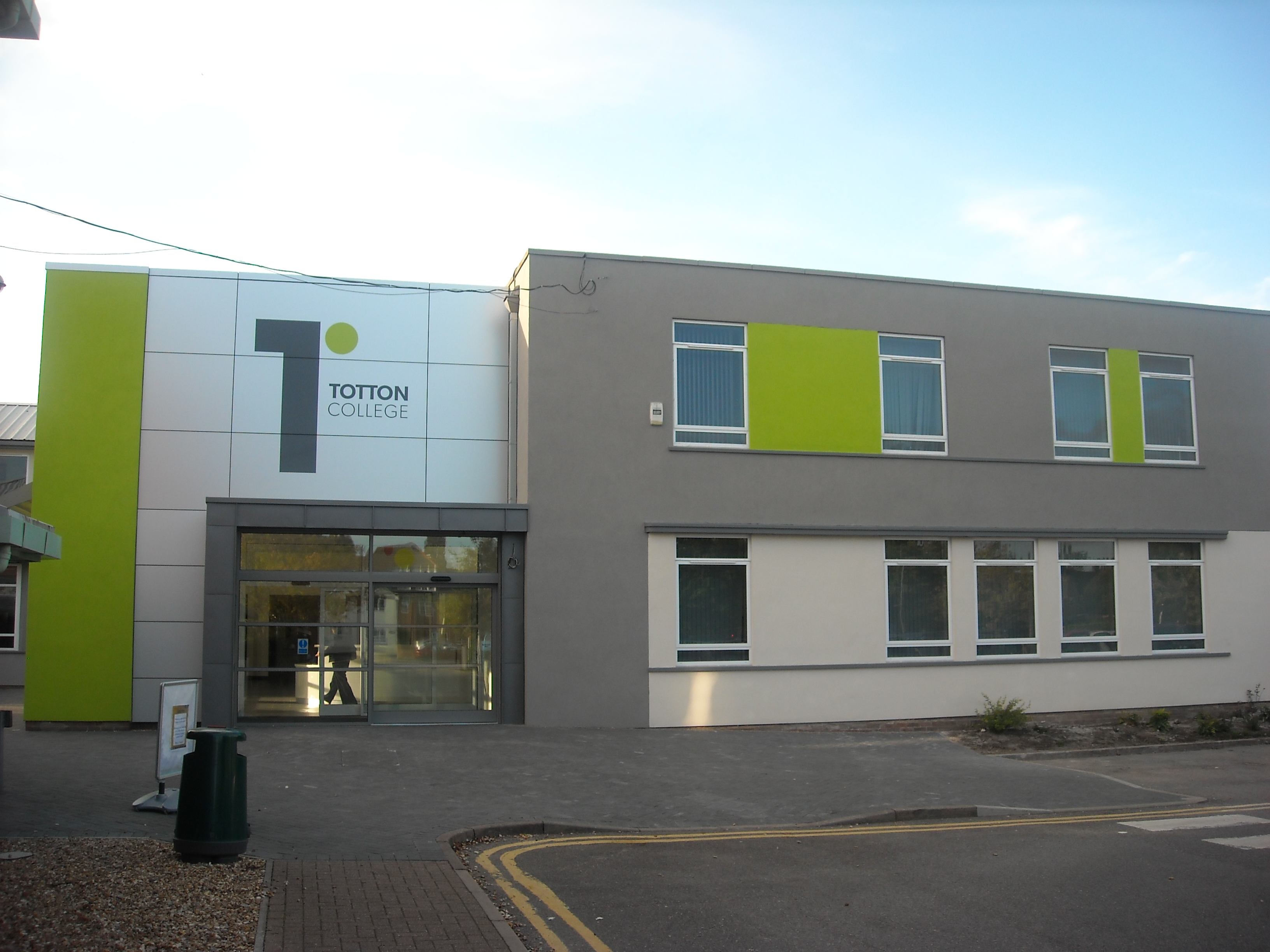 Totton College's main entrance on Water Lane as seen in September 2013 with the notable addition of the new extension.